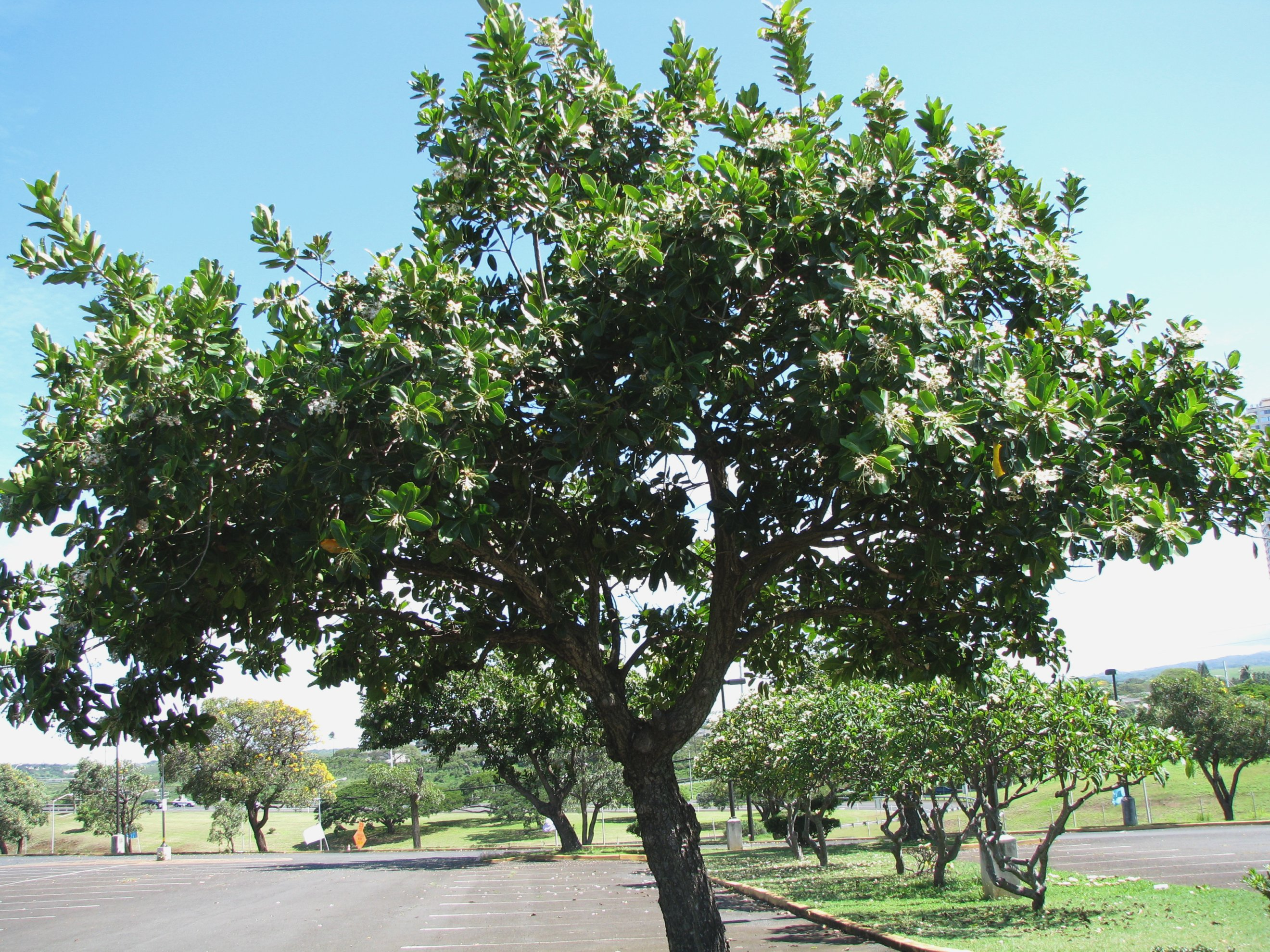 Kamani or Alexandrian laurel Clusiaceae Polynesian introduction to the Hawaiian Islands Oʻahu (Cultivated) Kamani was an important medicine for early Hawaiians. They also used the hard wood for calabashes.